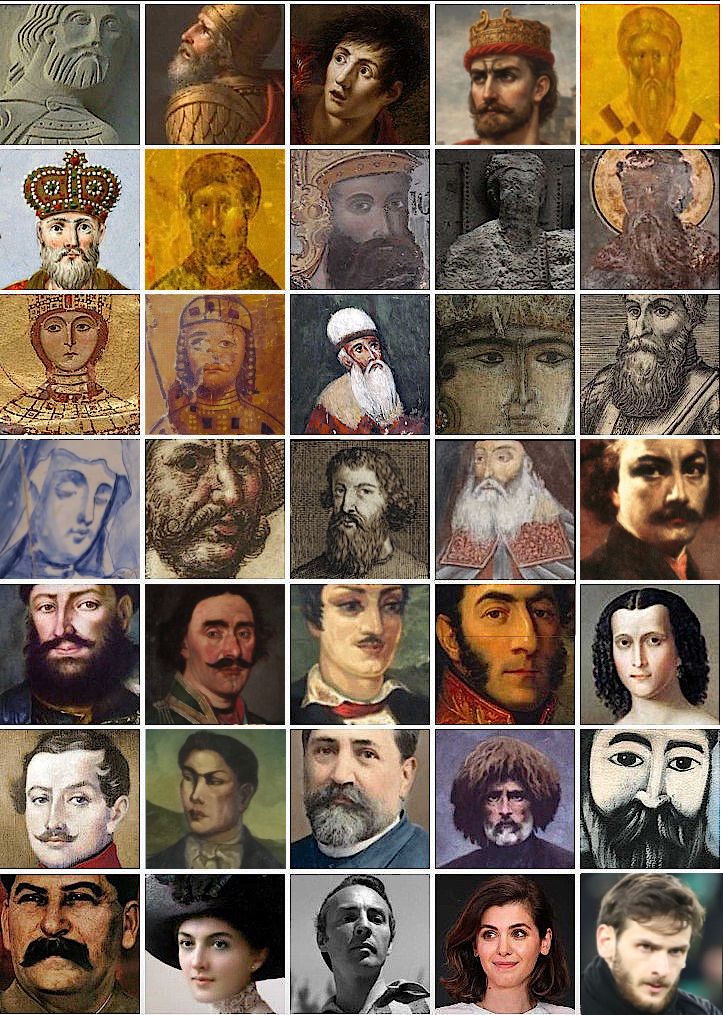 Montage of famous 35 ethnic Georgians. 1st row: Pharnavaz I, Pharasmanes I, Rhadamistus, Pharasmanes II, Peter the Iberian 2nd row: Vakhtang I, Hilarion the Iberian, Tornike Eristavi, David III of Tao, George of Athos 3rd row: Maria of Alania, David IV of Georgia, Shota Rustaveli, Tamar the Great, Simon I of Kartli 4th row: Ketevan the Martyr, Giorgi Saakadze, Anthim the Iberian, Vakhtang VI, David Guramishvili 5th row: Erekle II, Solomon I, Besiki, Peter Bagration, Nino, Princess of Mingrelia 6th row: Alexander Chavchavadze, Nikoloz Baratashvili, Ilia Chavchavadze, Vazha Pshavela, Niko Pirosmani 7th row: Iosif Stalin, Mary Eristavi, George Balanchine, Katie Melua, Khatia Buniatishvili